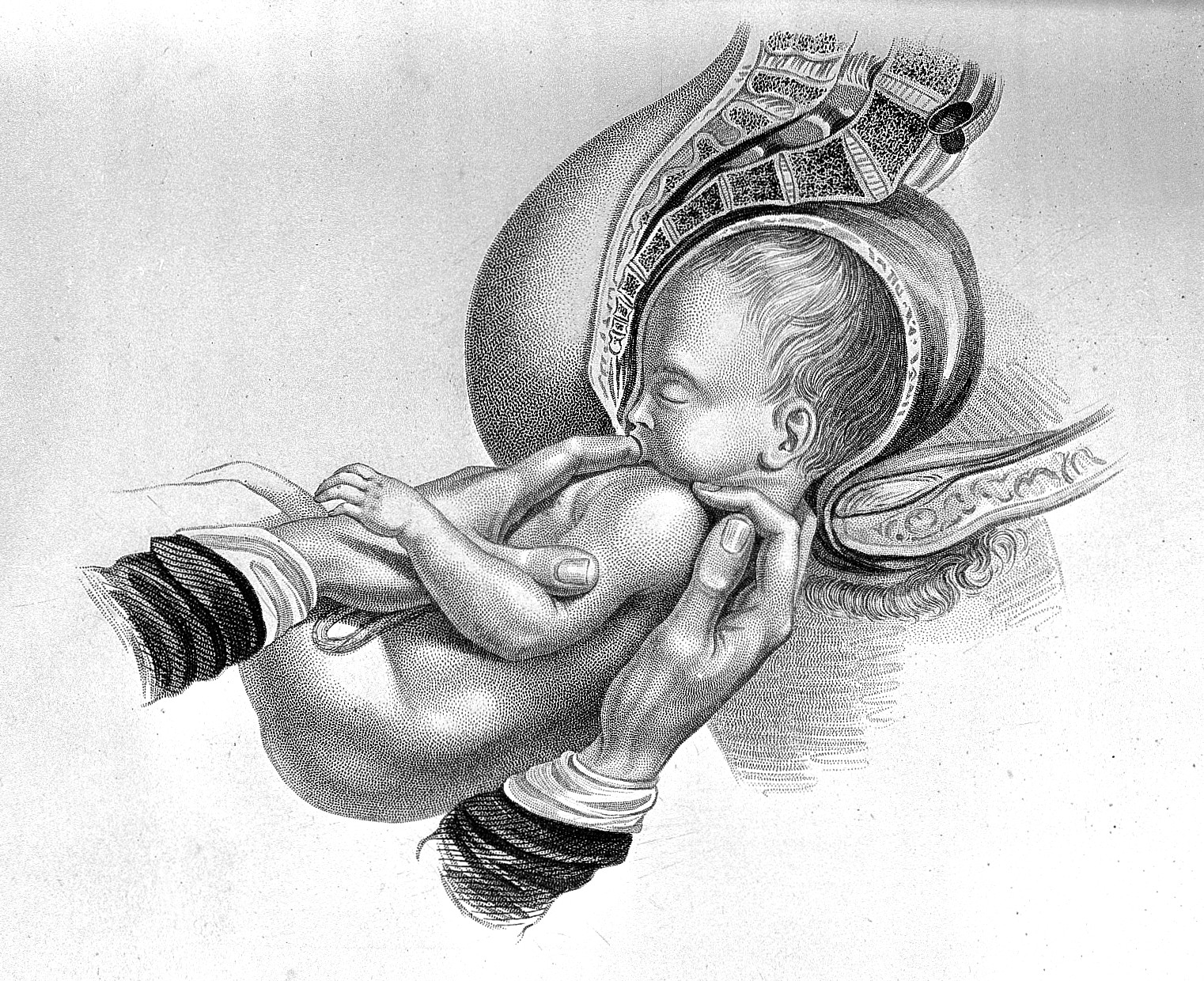 Breech presentation Rare Books Keywords: Obstetrics; Midwifery